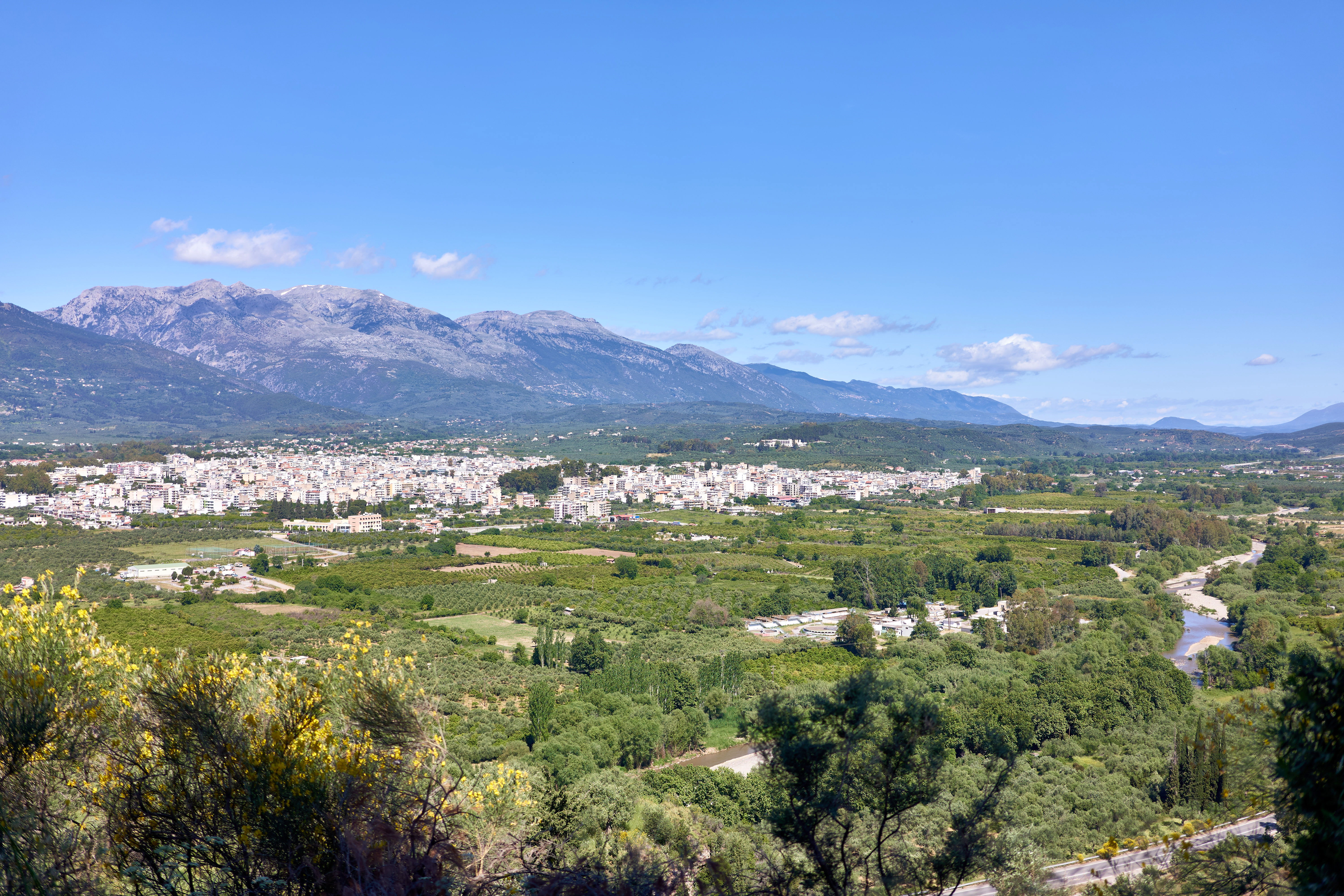 View of modern Sparta (centre), Mount Taygetus (background) and the River Eurotas (right) from the Menelaion (Sanctuary of Menelaus and Helen). Laconia, Greece.